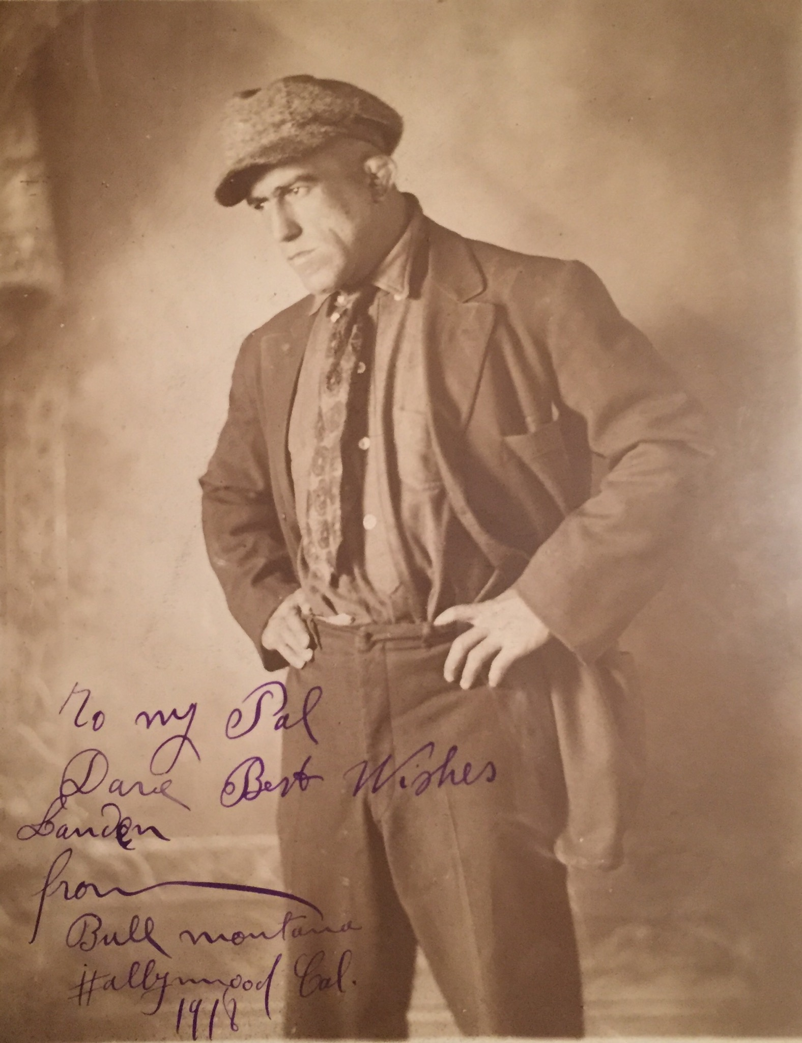 Luigi Montagna 1918 Publicity Photo